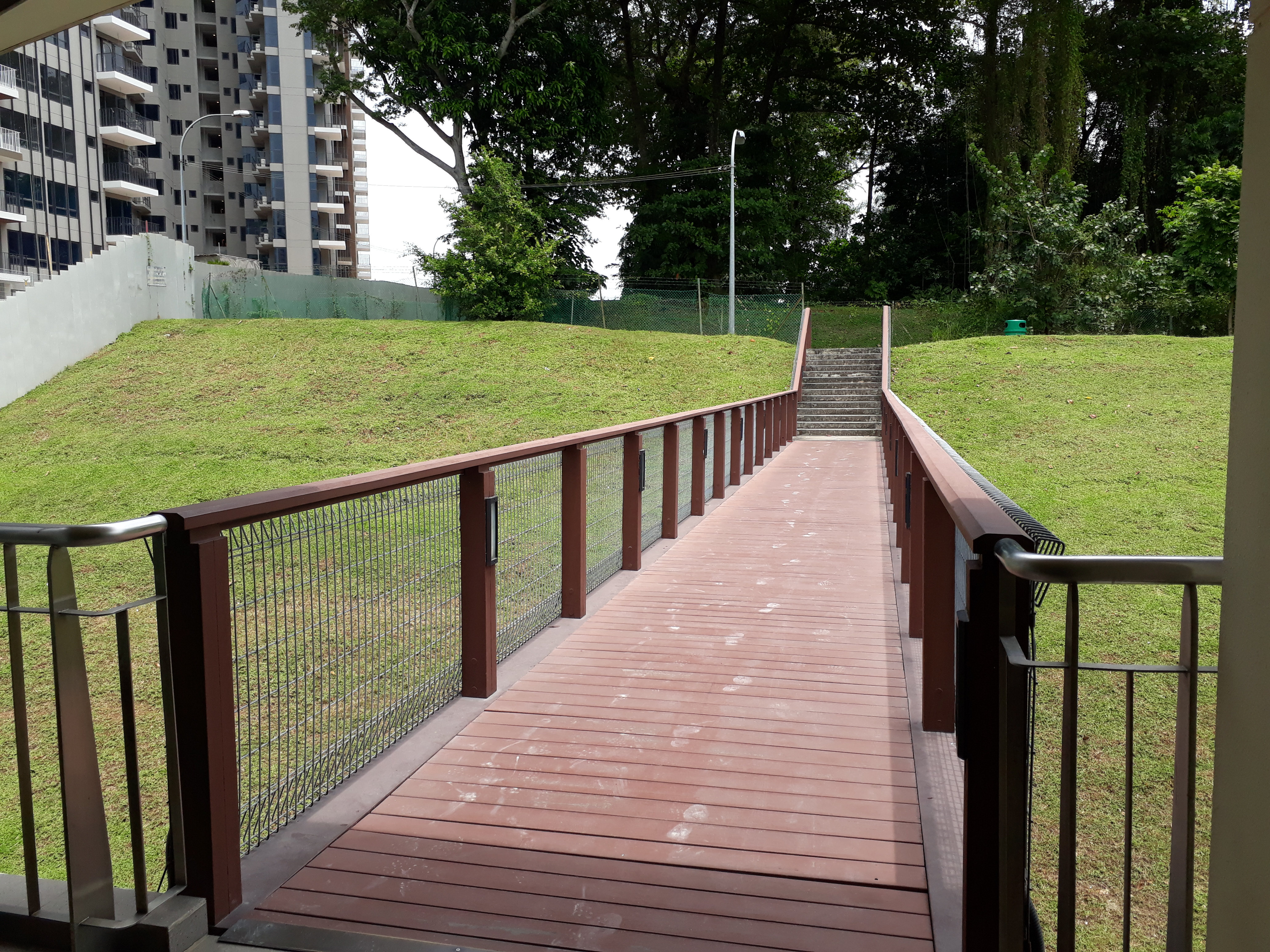 Linkway of Thanggam LRT to Jalan Kayu